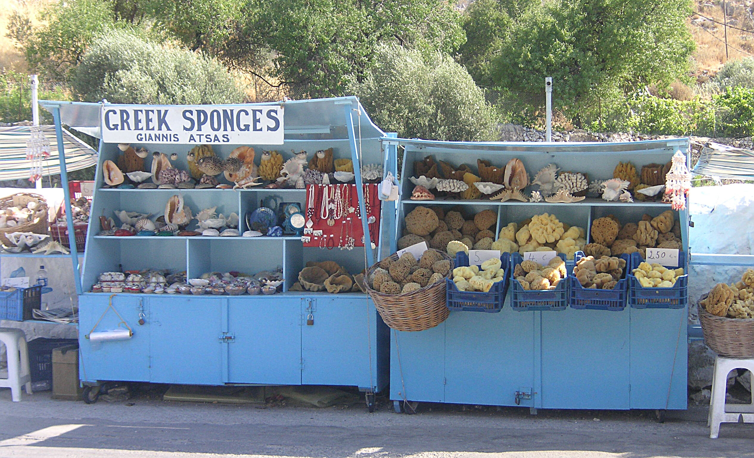 Sponges for sale